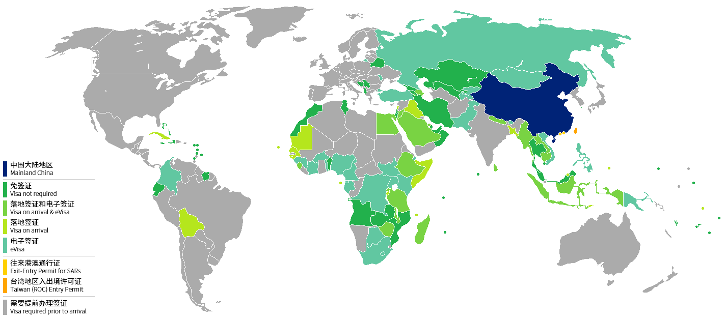 Map of visa requirements for Chinese citizens